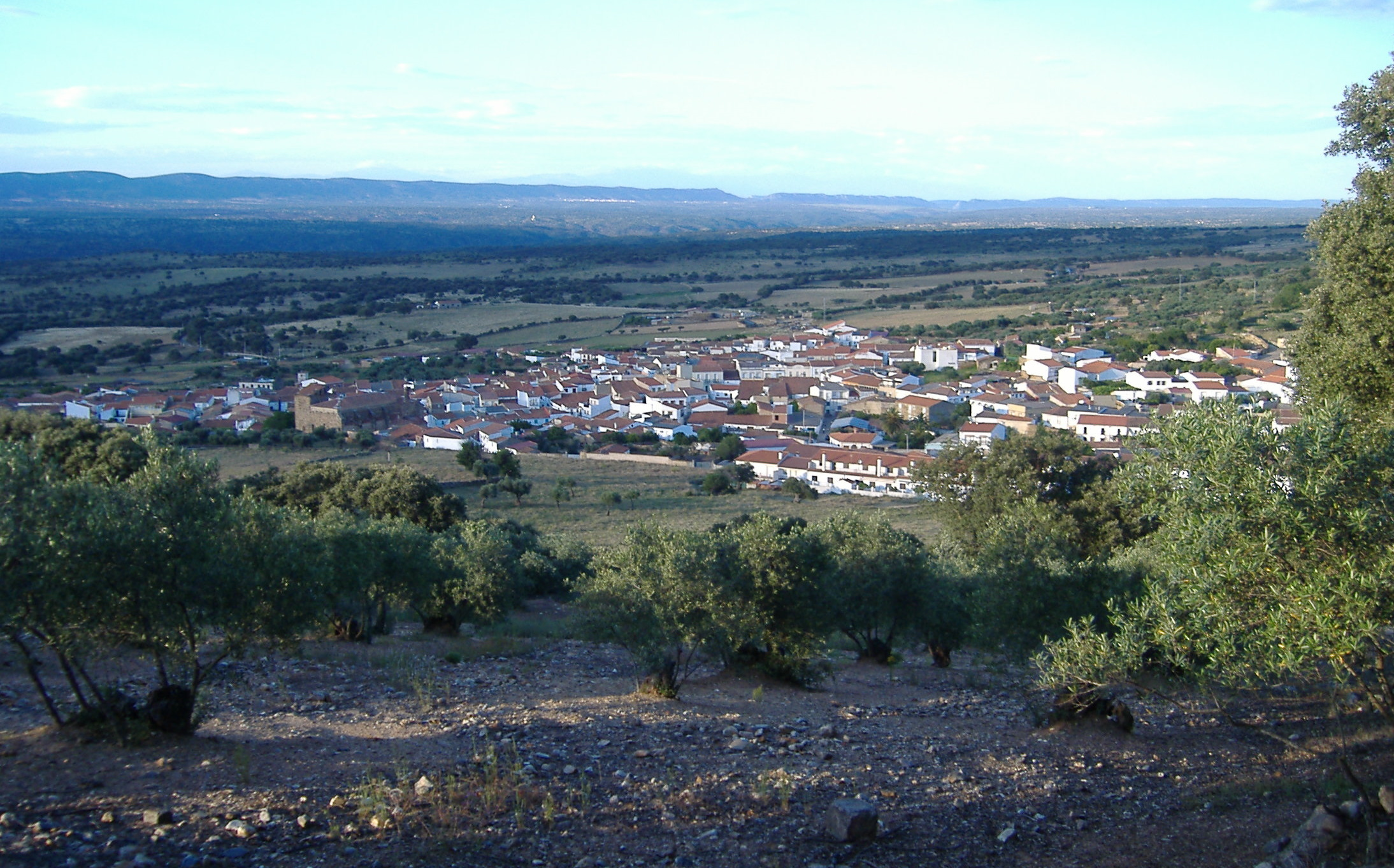 General sight of Talaván (Extremadura, Spain) from the hill of the Calvary